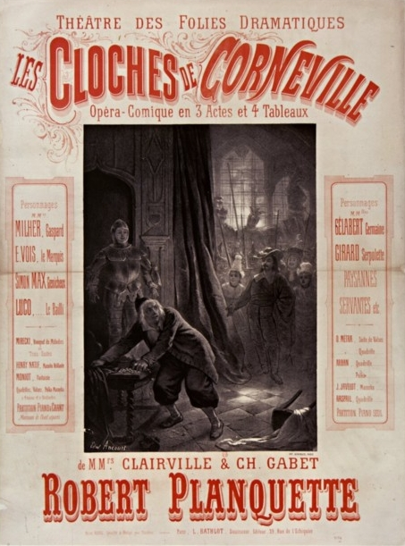 Lithograph of a programme of the Théâtre des Folies Dramatiques showing Les Cloches de Corneville.